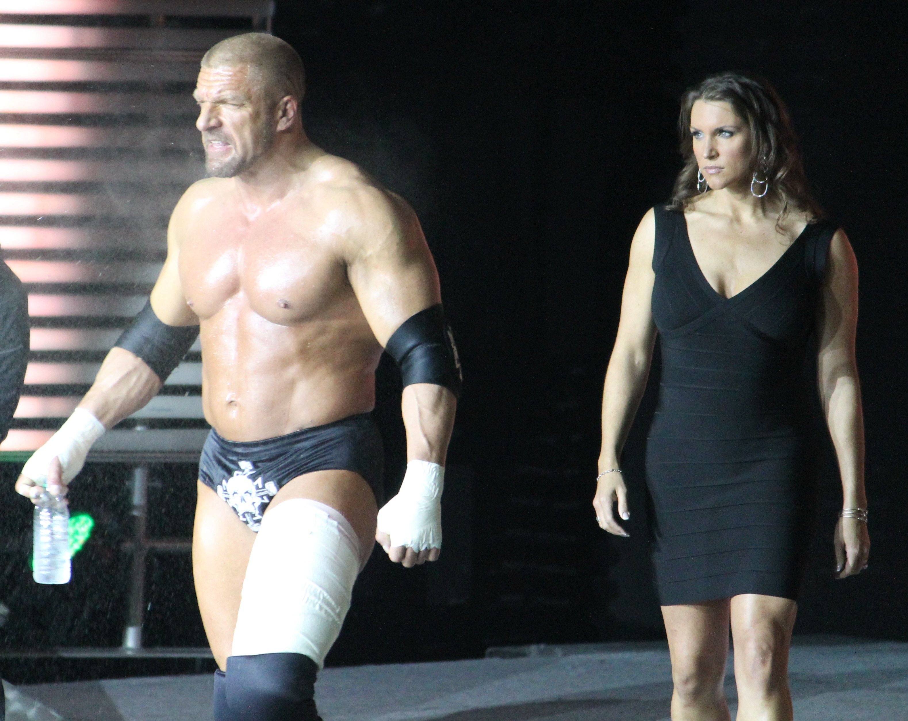 The Authority (Triple H, left, and Stephanie McMahon) at the post-WrestleMania Raw on 7 April 2014 in New Orleans, Louisiana.